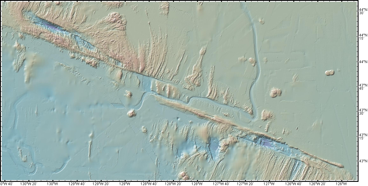 The Blanco Transform Fault Zone, generated with GeoMapApp